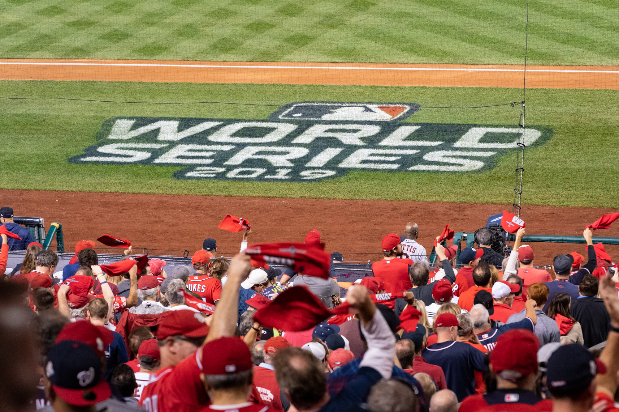 Fans cheer on the Nationals during Game 5 of the MLB World Series between the Washington Nationals and the Houston Astros baseball teams on Sunday evening, Oct 27, 2019, at Nationals Park in Washington, D.C. (Official White House Photo by Andrea Hanks)